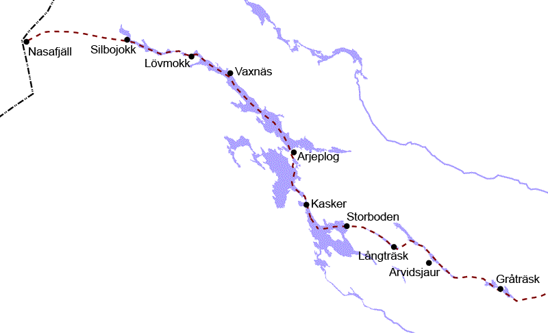 Winter paths to Nasafjäll in the 17th century, with reindeer stations along the way. Sources: Hoppe, vägarna i Norrbottens län, s. 112; Bromé, Nasafjäll, s. 152.